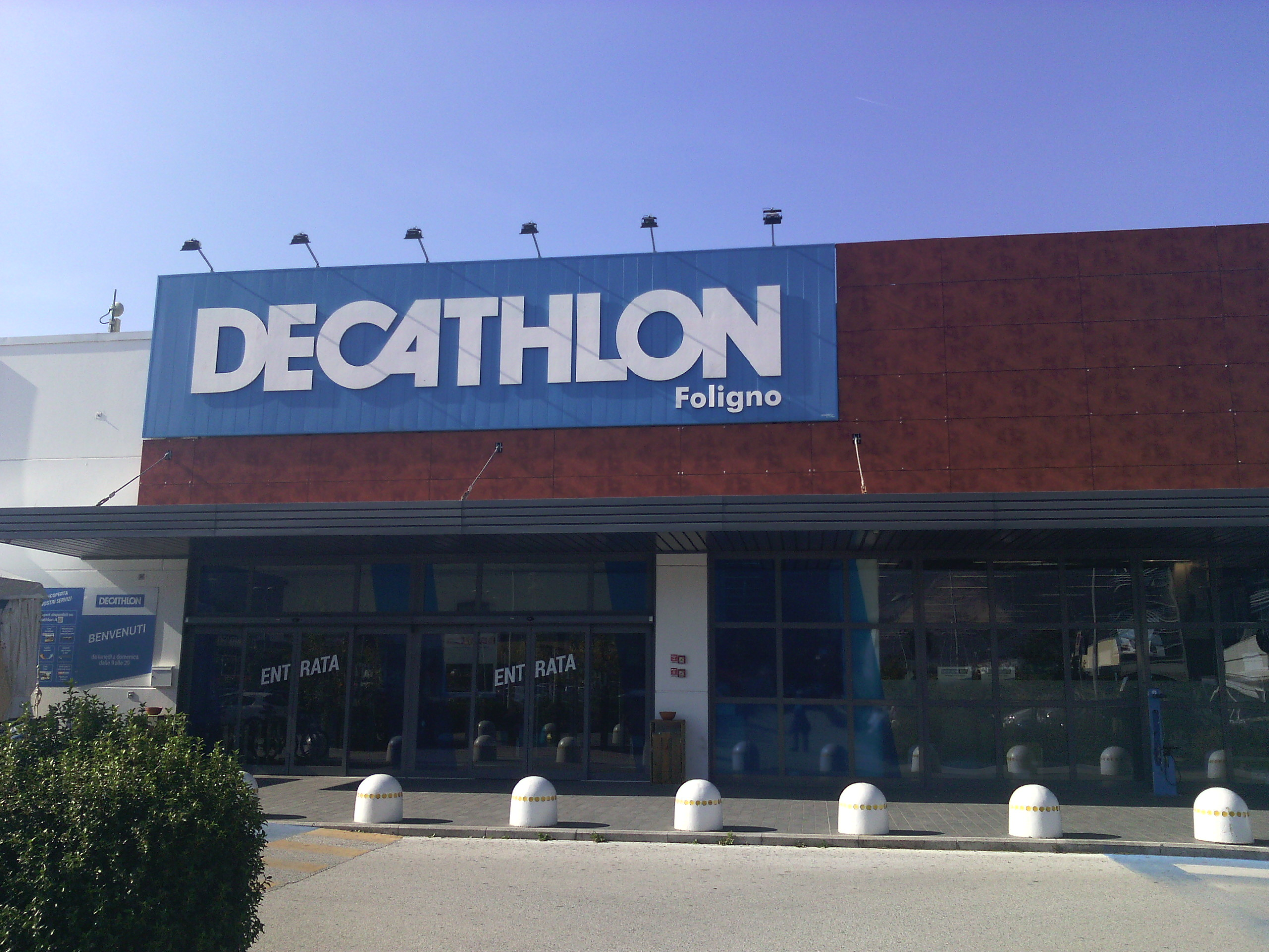 A Decathlon S.A. Store in Foligno (Umbria, Italy), October 25, 2018.